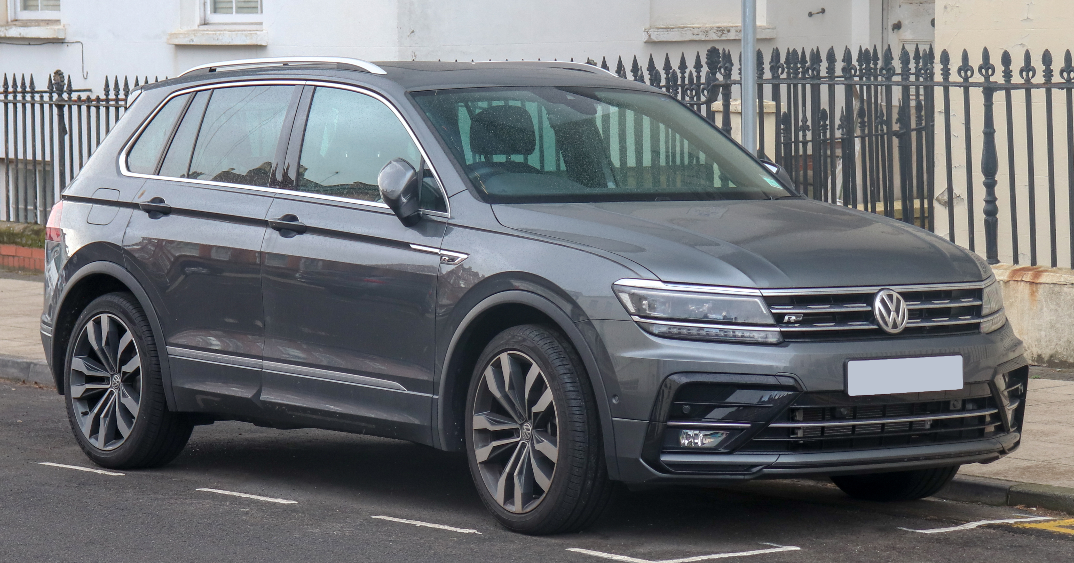 2018 Volkswagen Tiguan R-Line TSi BlueMotion 4Motion 2.0 Front Taken in Leamington Spa